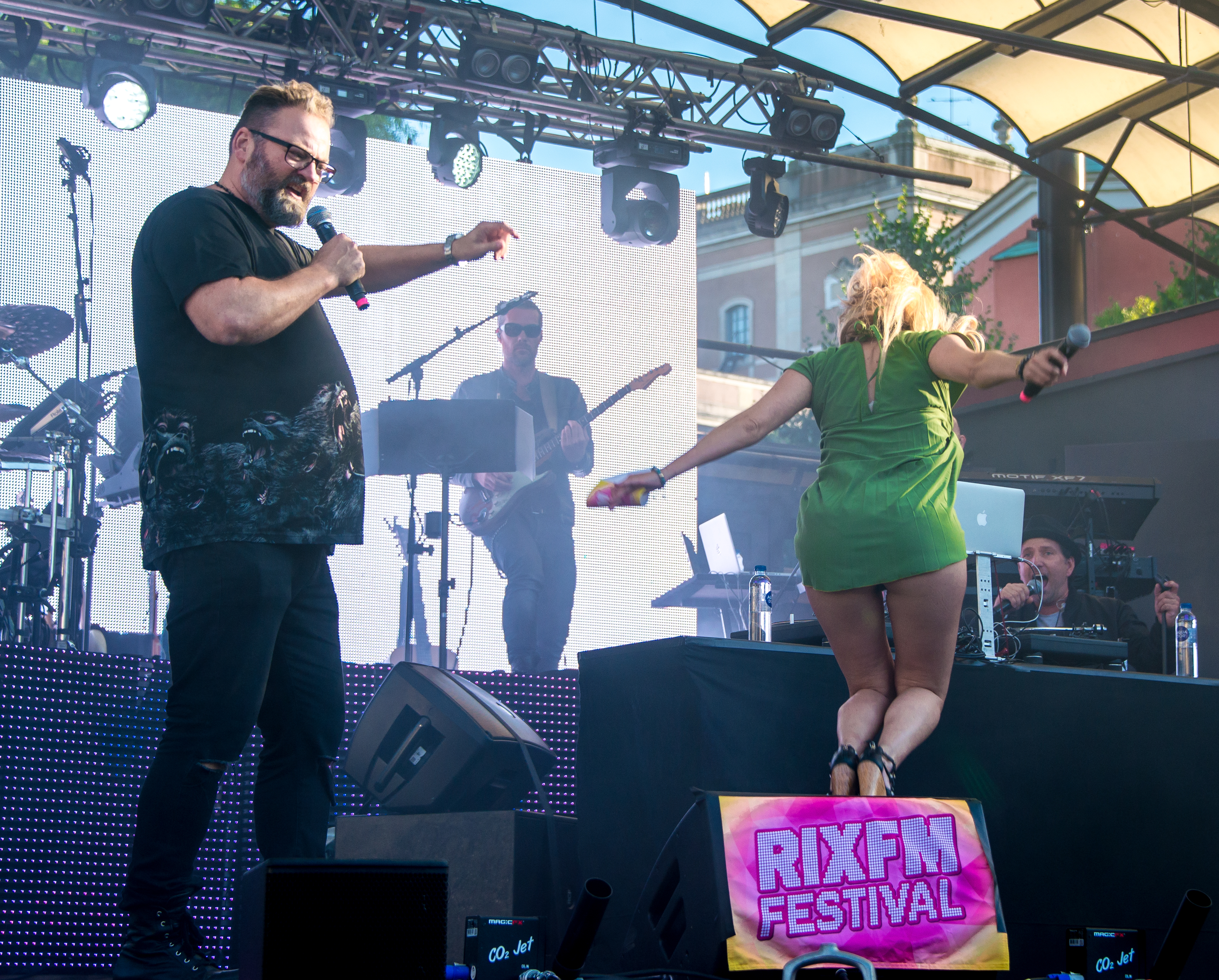 The conferences Adam Alsing and Laila Bagge during the RIX FM Festival 2016 in Kungsträdgården in Stockholm.